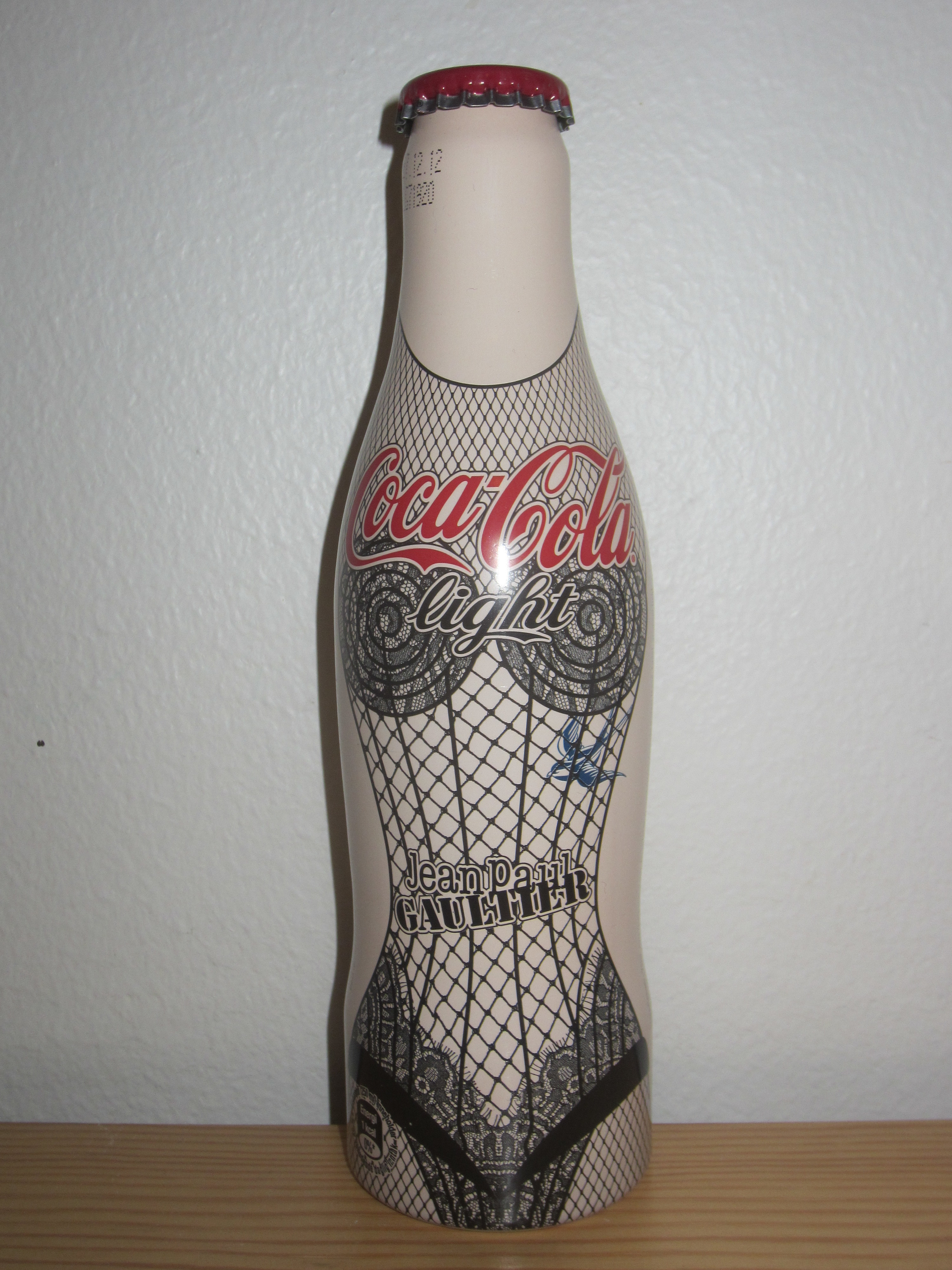 Coca-Cola Light Jean Paul Gaultier Edition | New special limited collectors edition in Norway!